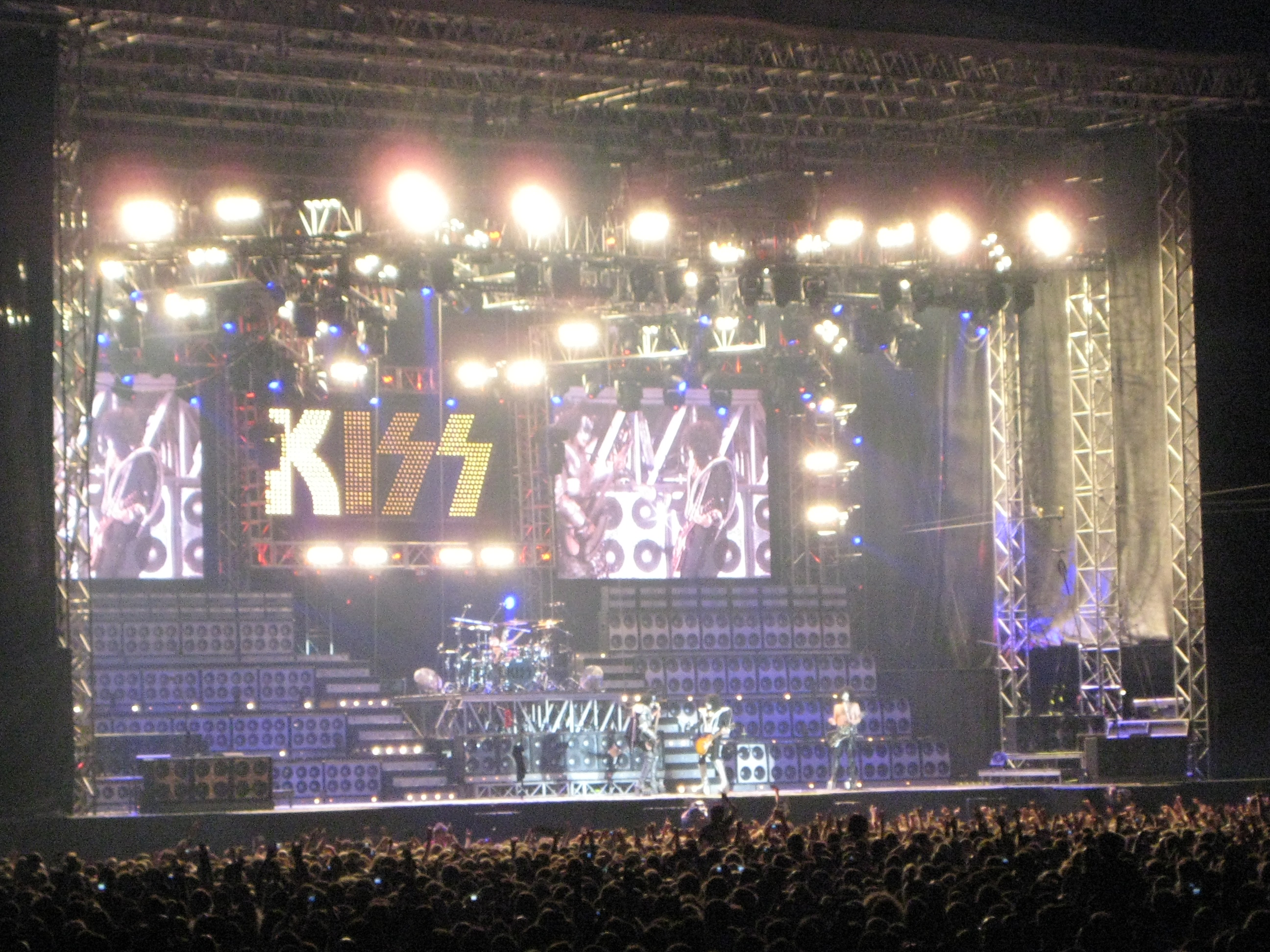 KISS at the Olympic stadium Stockholm Sweden 30 may 2008